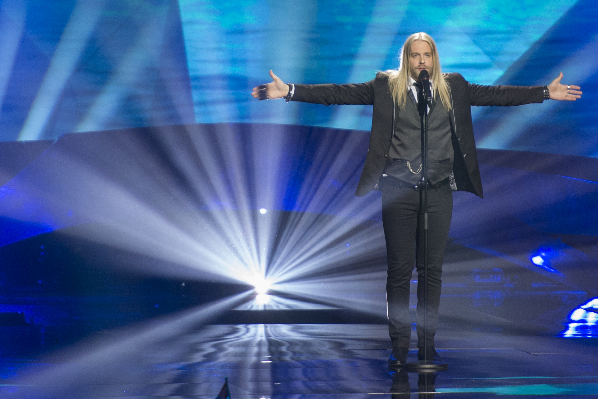 Eythor Ingi representing Iceland with the song "Ég á líf" during the second dress rehearsal of the second semi final of the Eurovision Song Contest 2013 in Malmö. (Help translate this text)